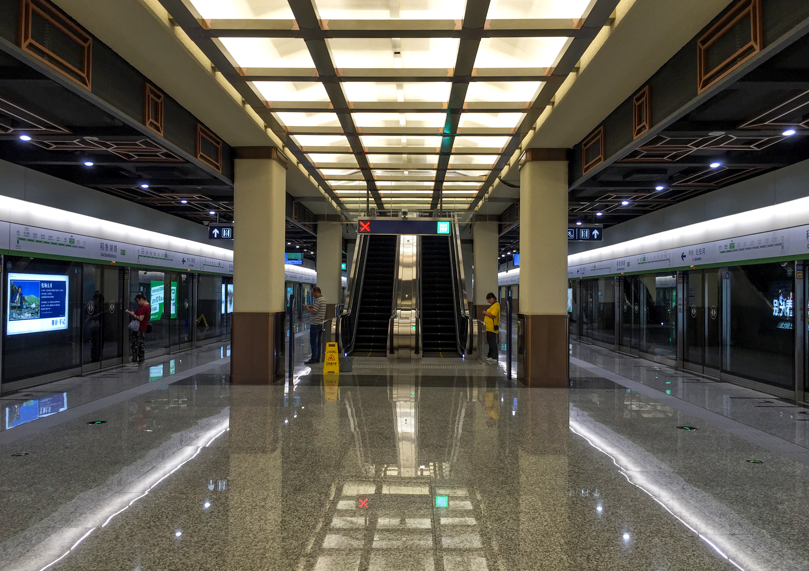 Boarded the train here at 8:00, only to find... no vacant seats!